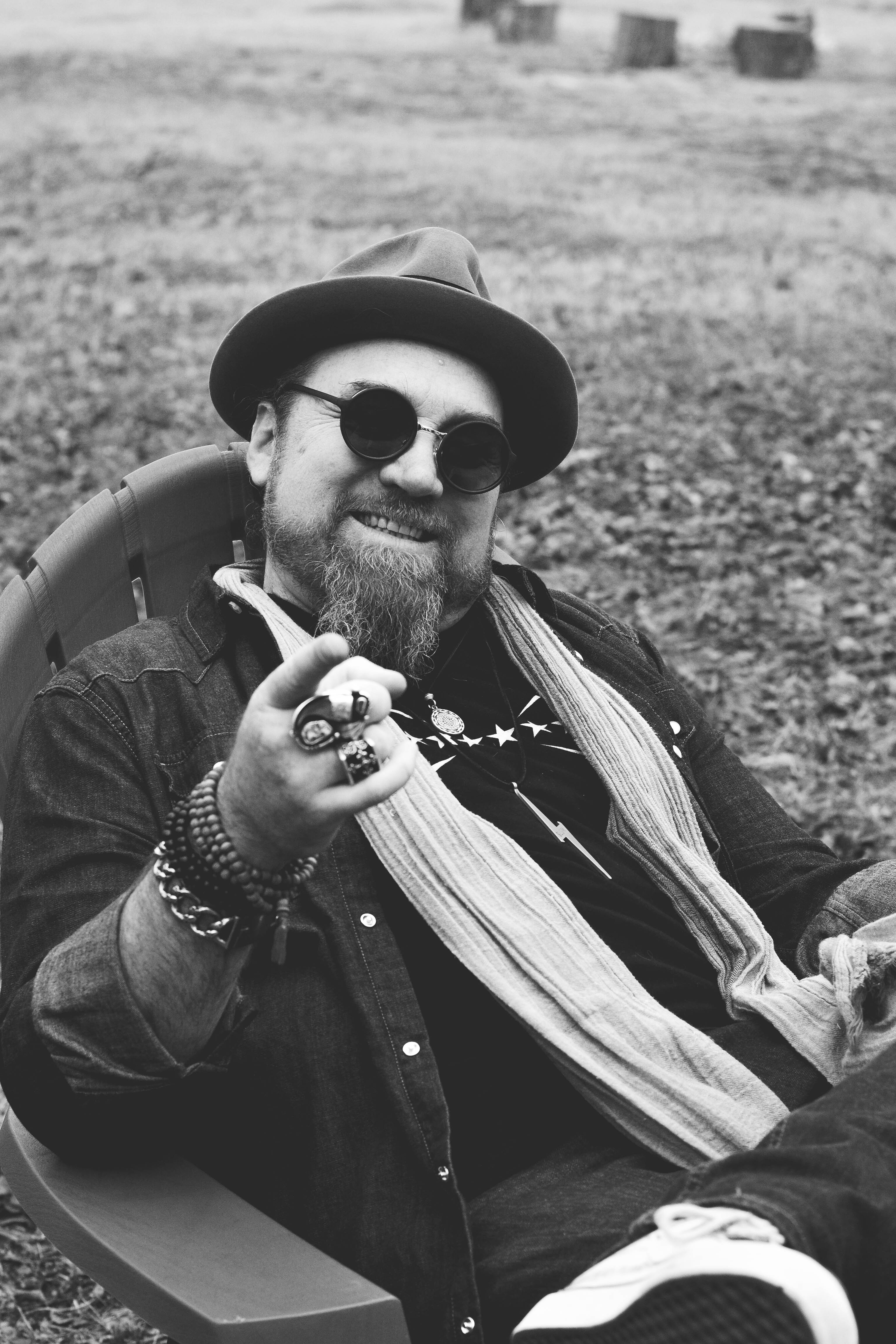 Peter Keys at home in 2017